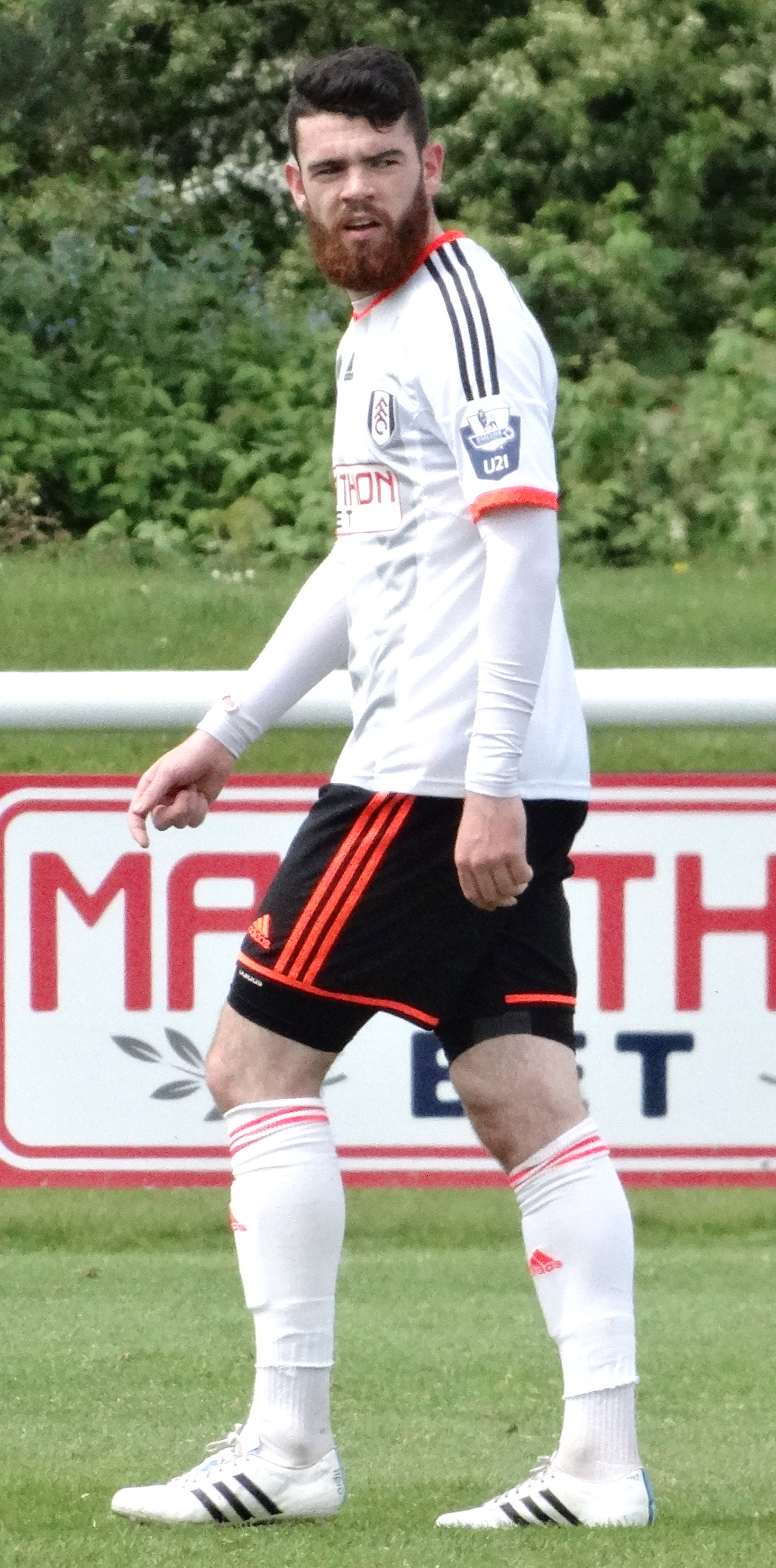 Liam Donnelly playing for Fulham U21 in a match against Chelsea